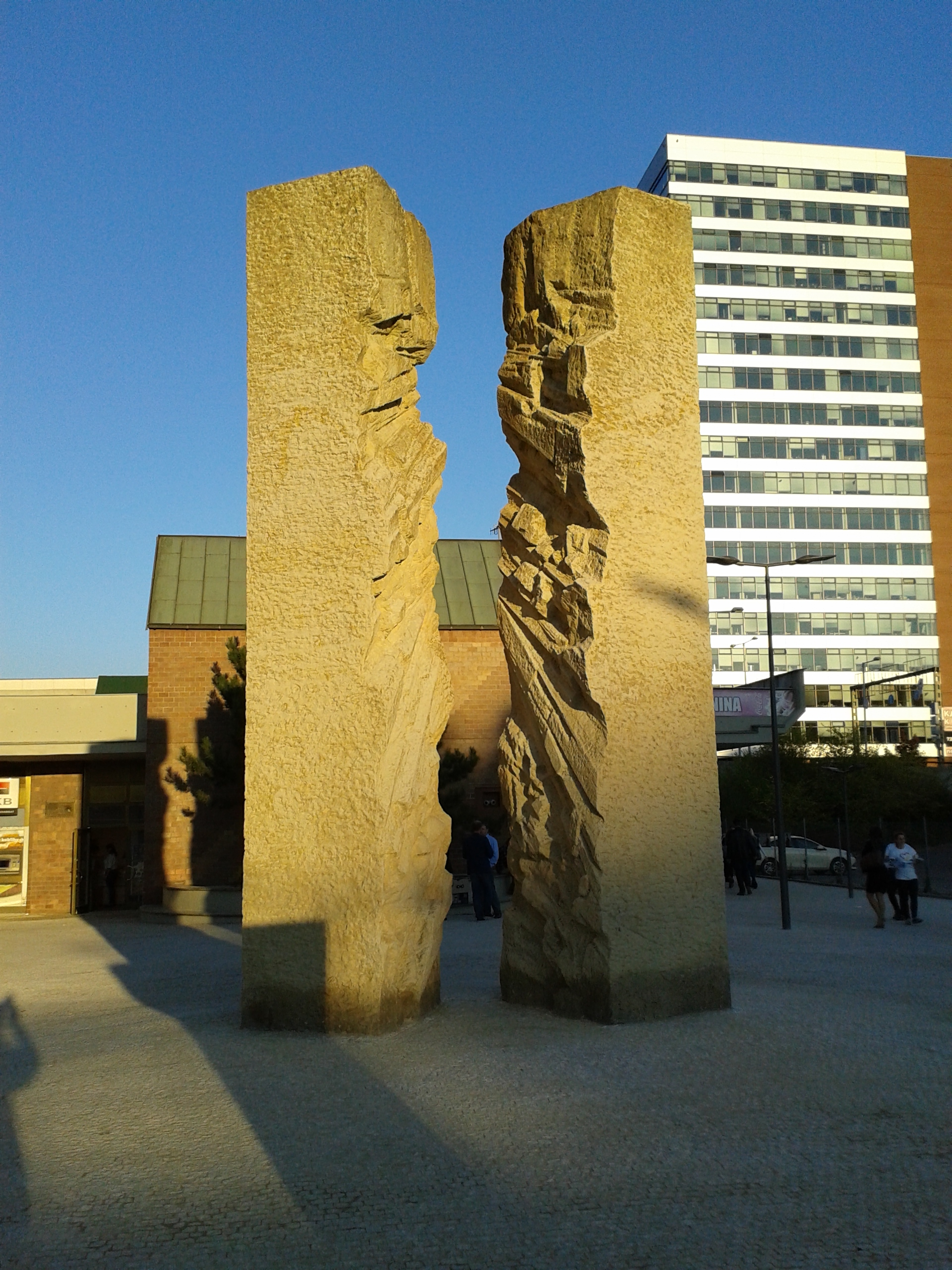 Milan Vacha, 1978 Monument Dukla heroes, stone (sandstone stelae pair), output Butovice metro station, Prague 5.